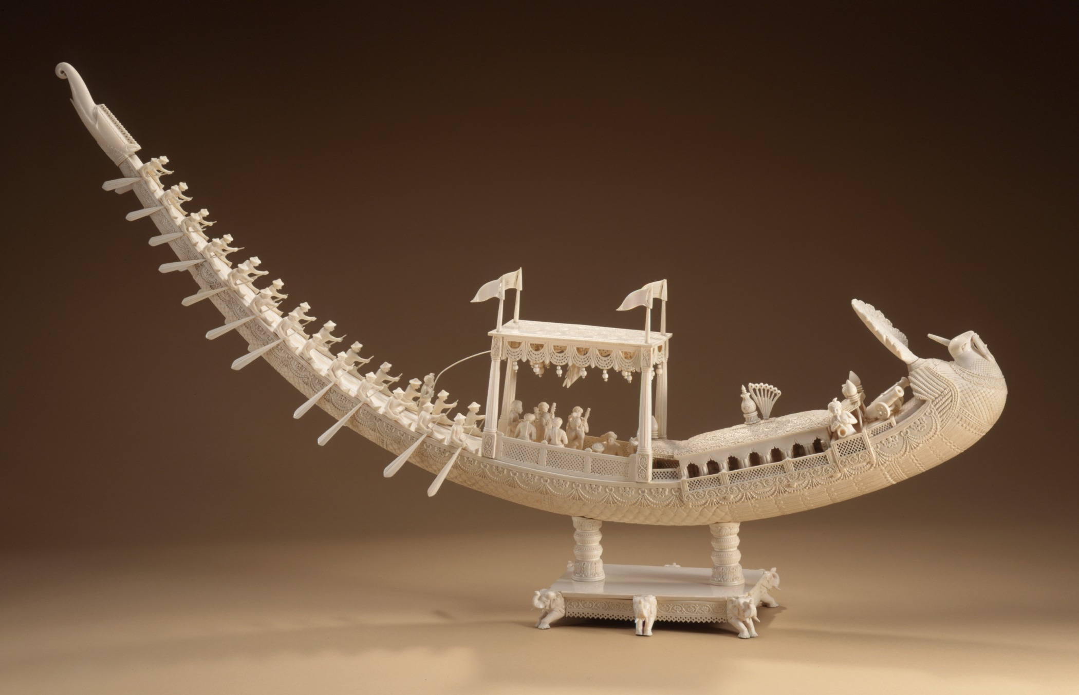 India, West Bengal, Murshidabad, late 19th century Sculpture Ivory 24 3/8 x 42 x 6 1/2 in. (61.91 x 106.68 x 16.51 cm) Gift of Cynthia and Ken Boettcher, Laguna Niguel, California (M.82.154) South and Southeast Asian Art Currently on public view: Ahmanson Building, floor 4